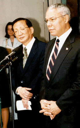 Colin Powell and Tang Jiaxuan.